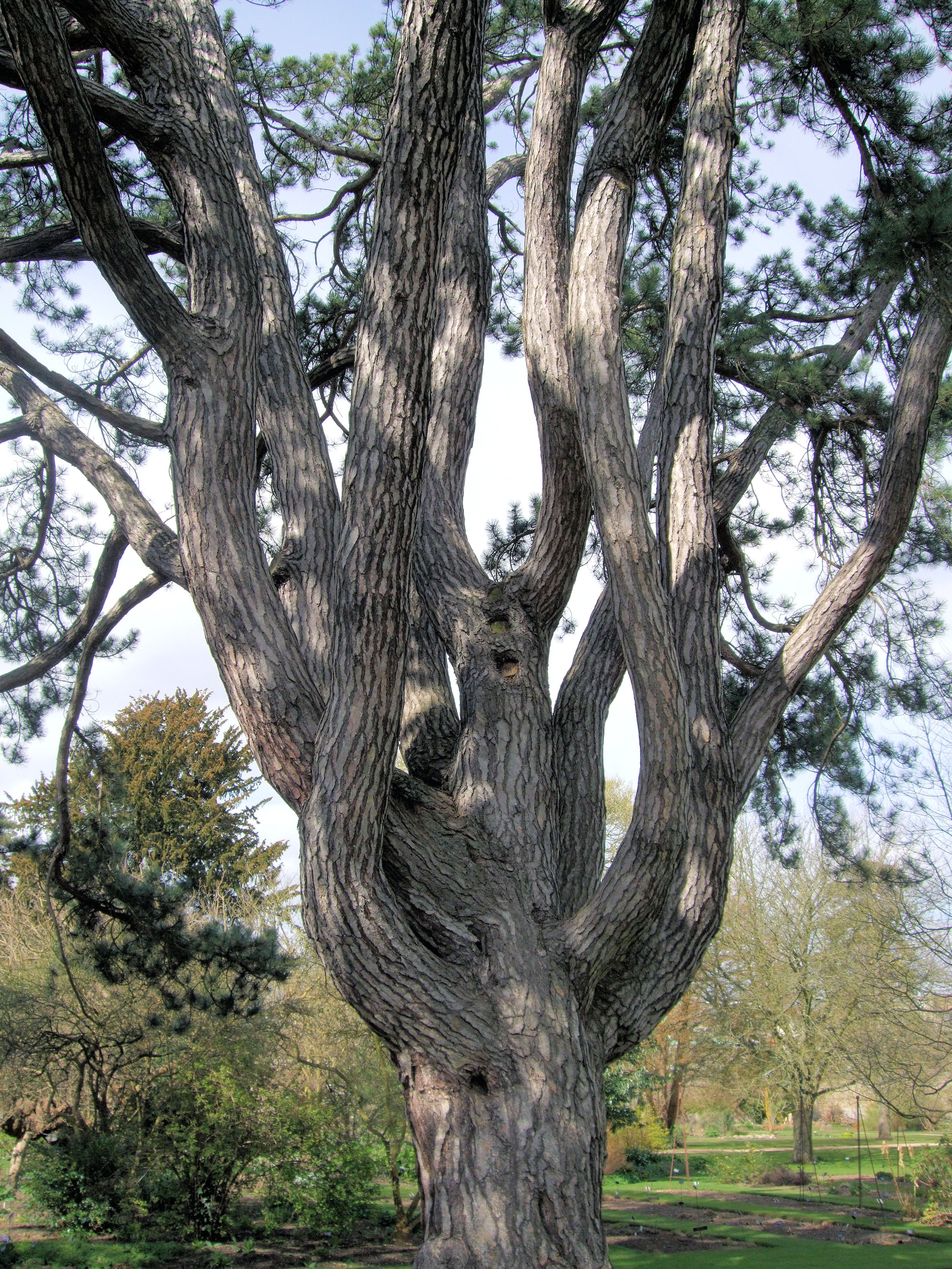 Pinus nigra in Oxford Botanical Garden. J.R.R. Tolkien loved this tree, and his last known photograph was taken at its foot.